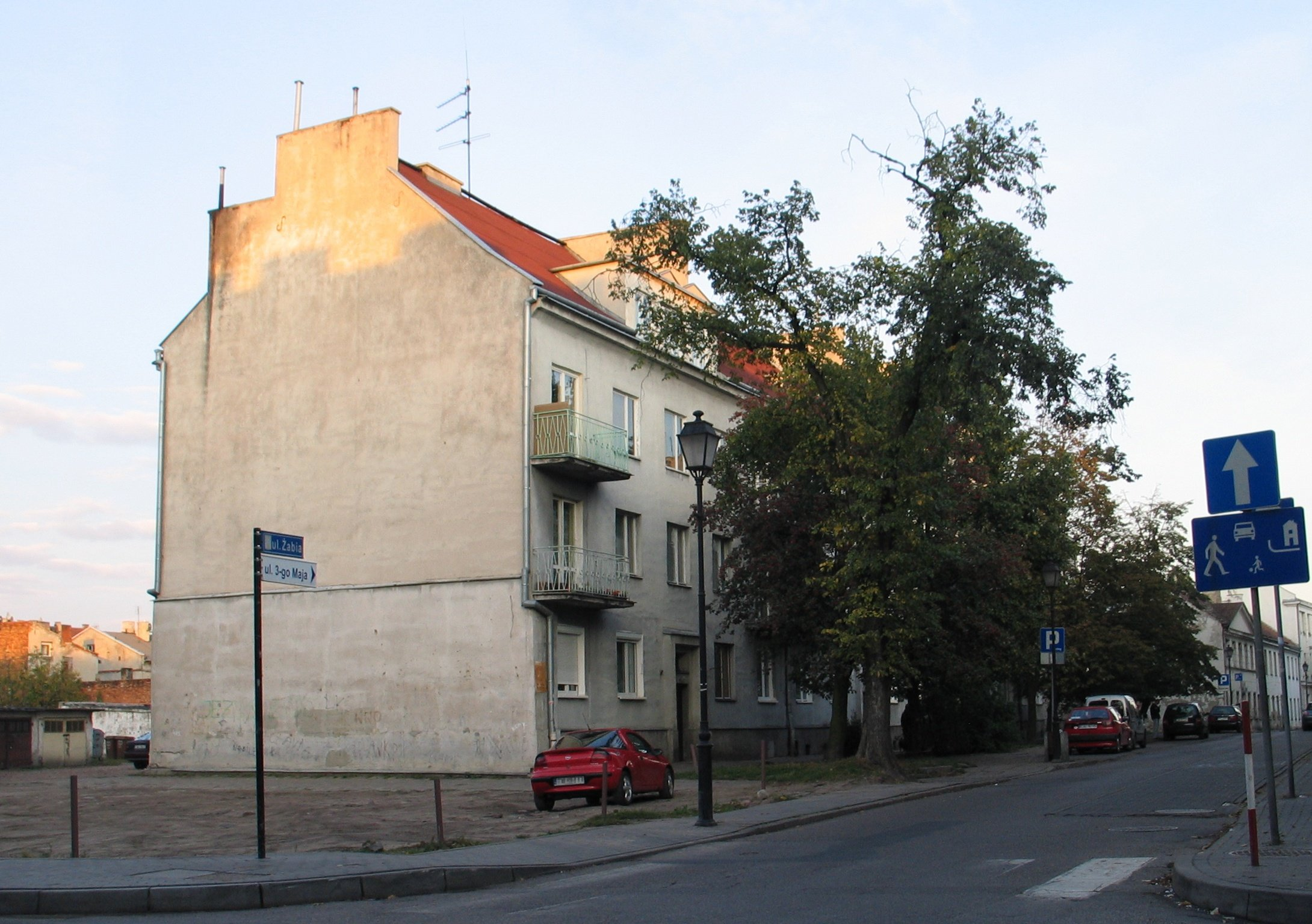 Zabia 14 building nowadays (Wloclawek, Poland), the lot has been stolen from the Jewish community of Wloclawek by People's Republic of Poland, during WWII the Germans burned Old Synagogue on Zabia 14